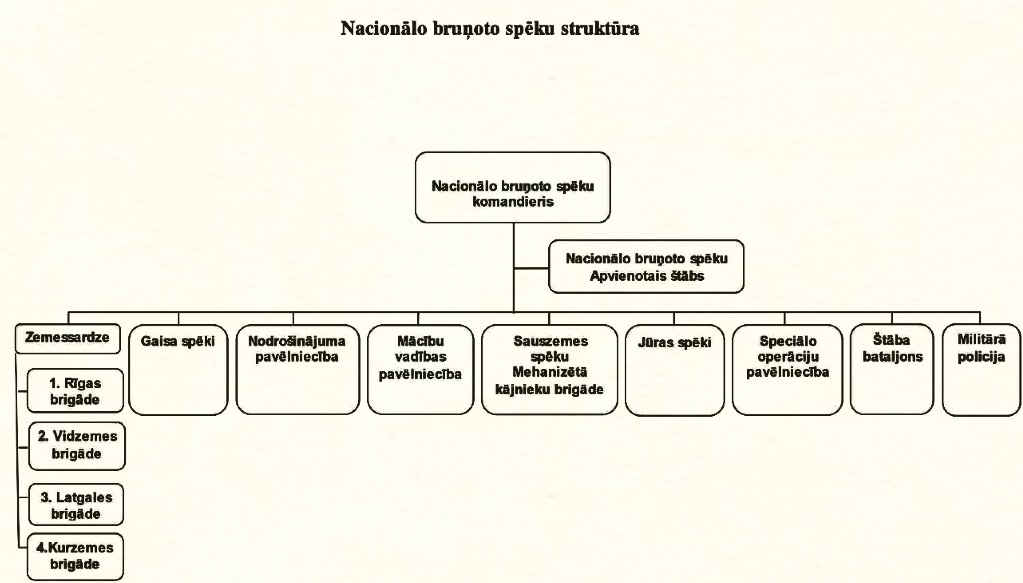 Latvian national armed forces structure